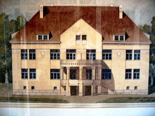 Söderkulla Mansion in Sipoo, Finland, by architect Karl Lindahl (1874-1930)